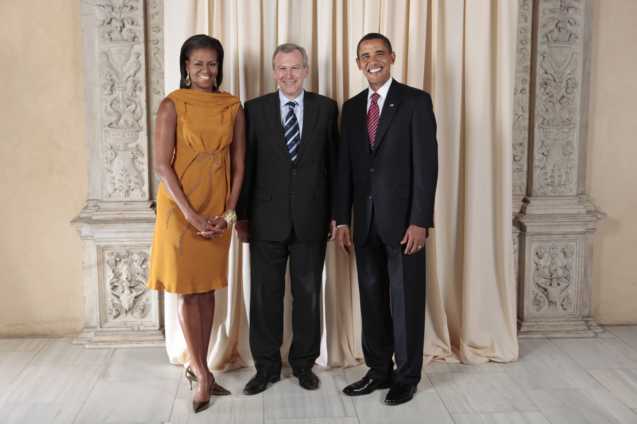 President Barack Obama and First Lady Michelle Obama pose for a photo during a reception at the Metropolitan Museum in New York with Yves Leterme of Belgium.